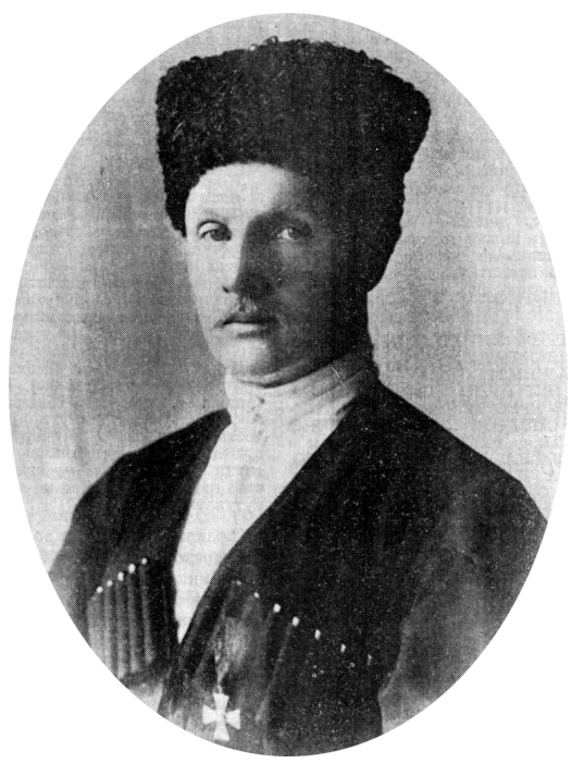 Hetman Pavlo Skoropadsky